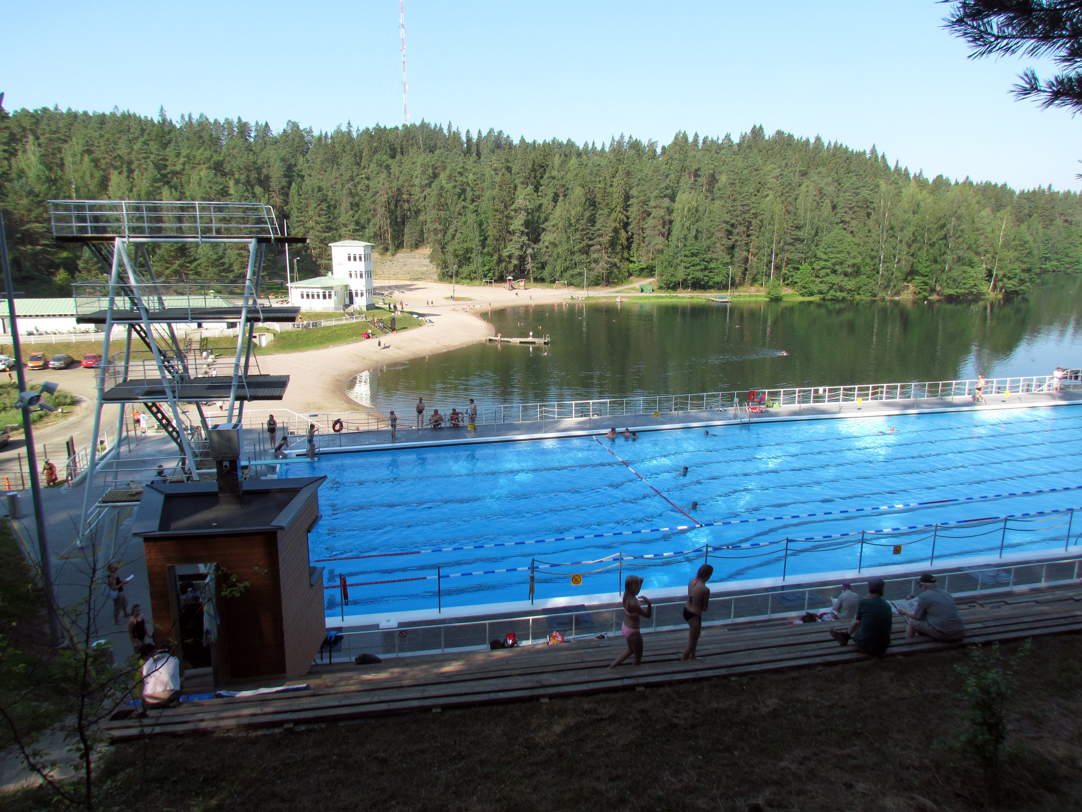 Ahveniston lido in Hämeenlinna was re-opened after renovation the 26th of July in 2014.